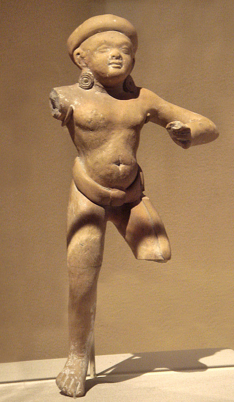 Mauryan Statuette 2nd Century BCE, Metropolitan Museum of Art, New York